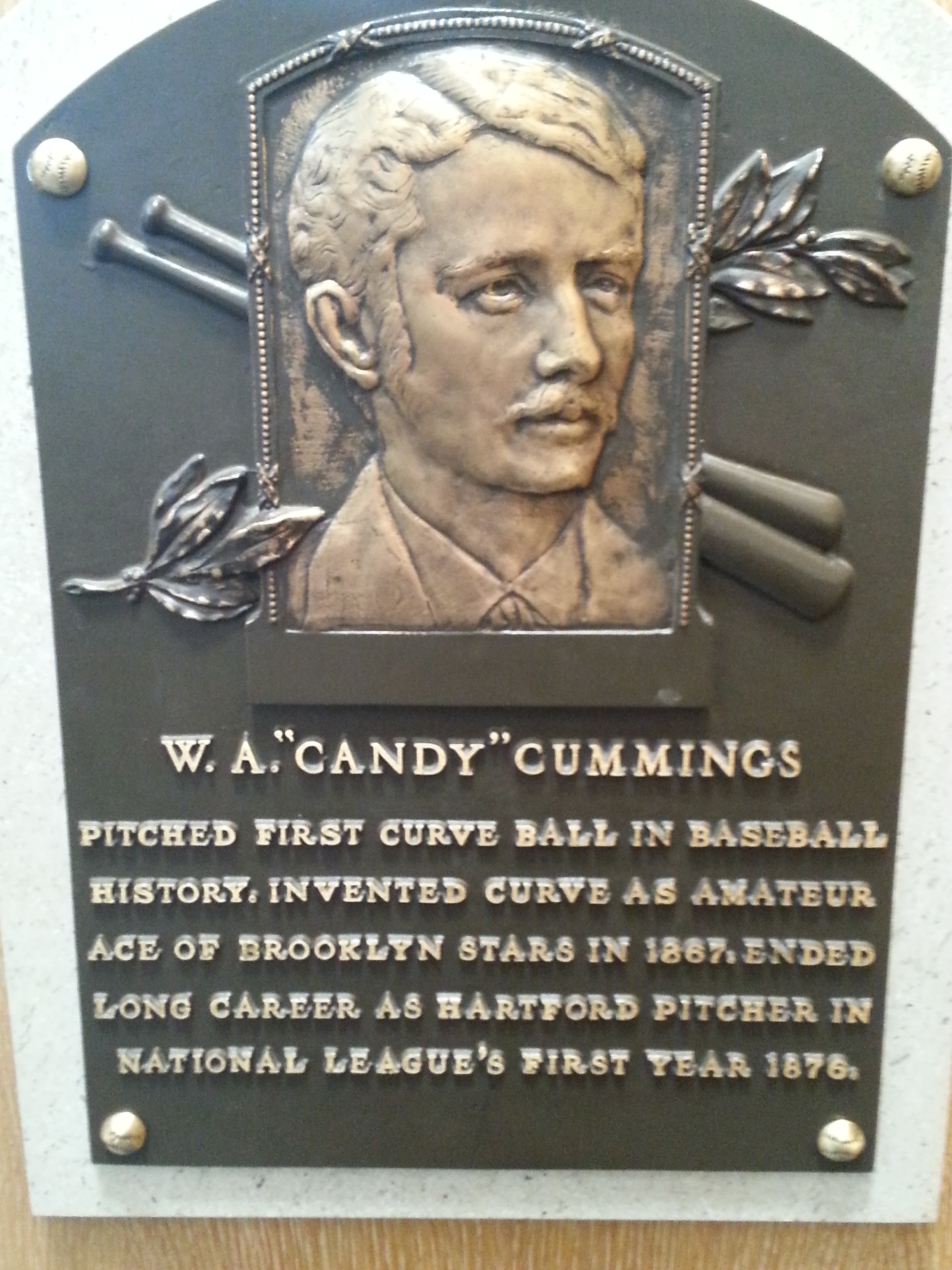 Candy Cummings plaque in the National Baseball Hall of Fame